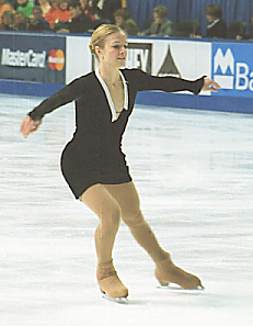 Annie Bellemare competes her long program at the 2002 Canadian Championships in Hamilton, Ontario.